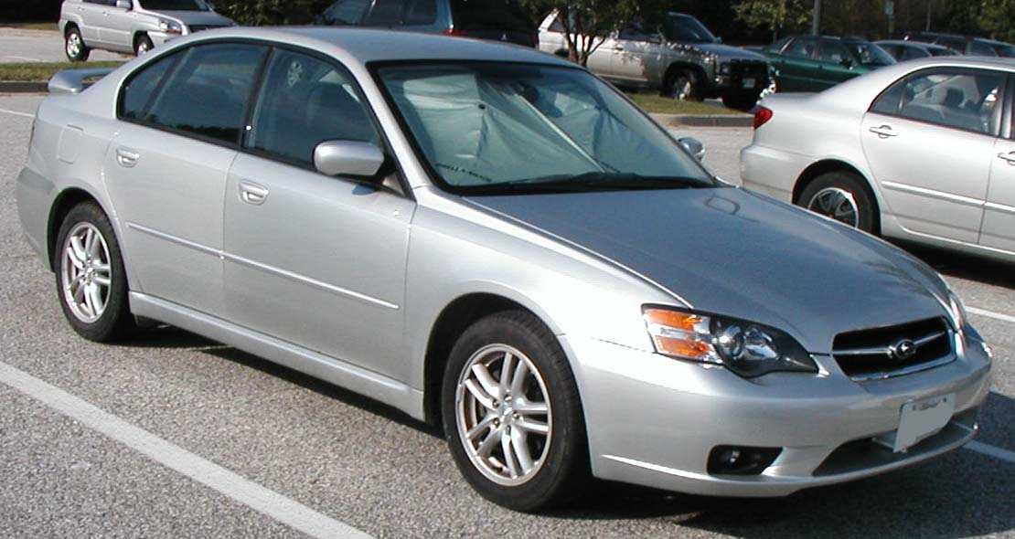 2005-2006 Subaru Legacy sedan photographed in USA.